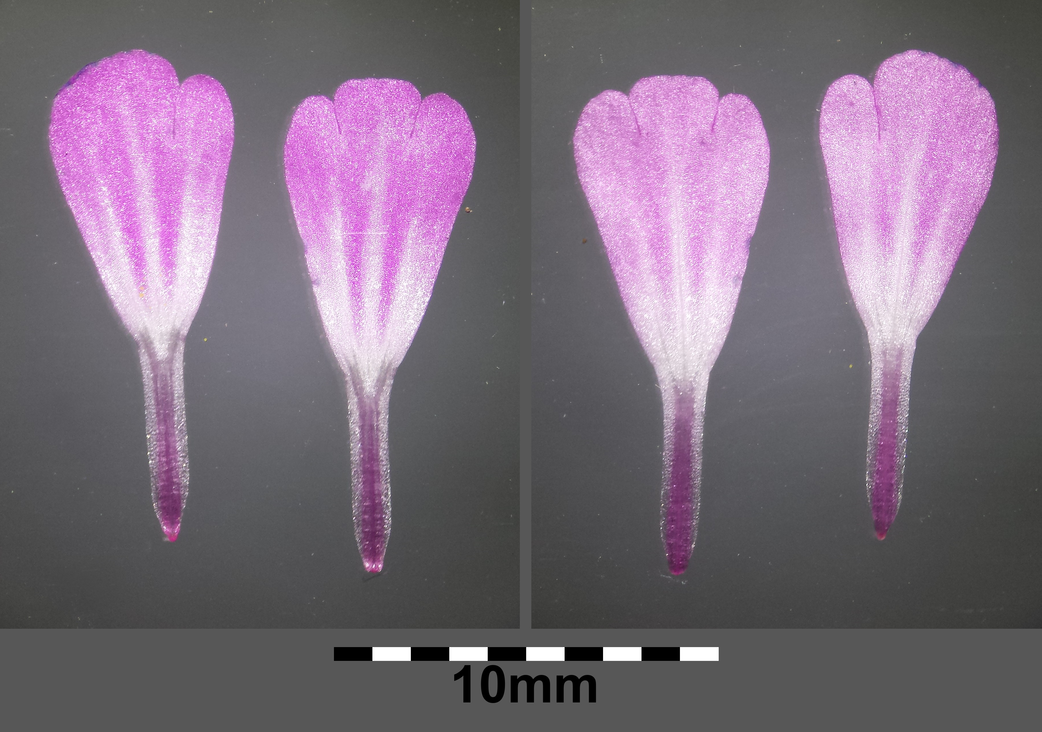 Petals, top and bottom side Taxonym: Geranium robertianum (s. str.) ss Fischer et al. EfÖLS 2008 ISBN 978-3-85474-187-9 Location: Floridsdorf rail station, Vienna-Floridsdorf - ca. 160 m a.s.l. Habitat: ballast